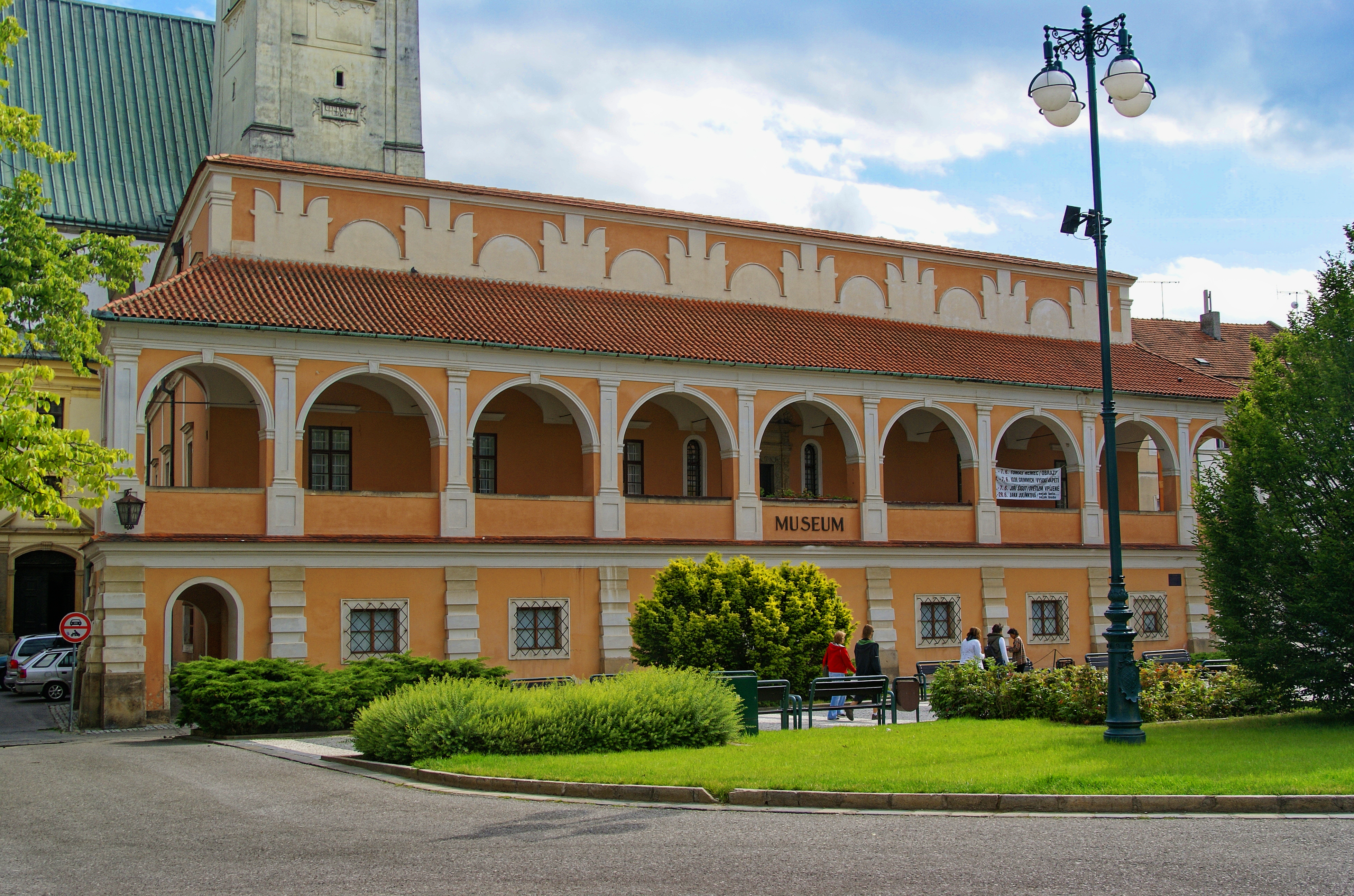 Prostějov - Stará Radnice - Old Town Hall 1521-1530 Renaissance